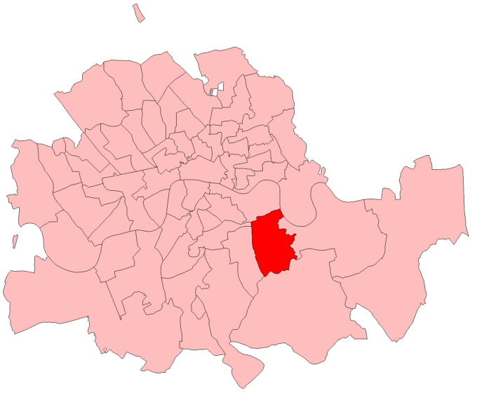 A map of Deptford constituency within the Metropolitan Board of Works area, as it existed from 1885 to 1918.